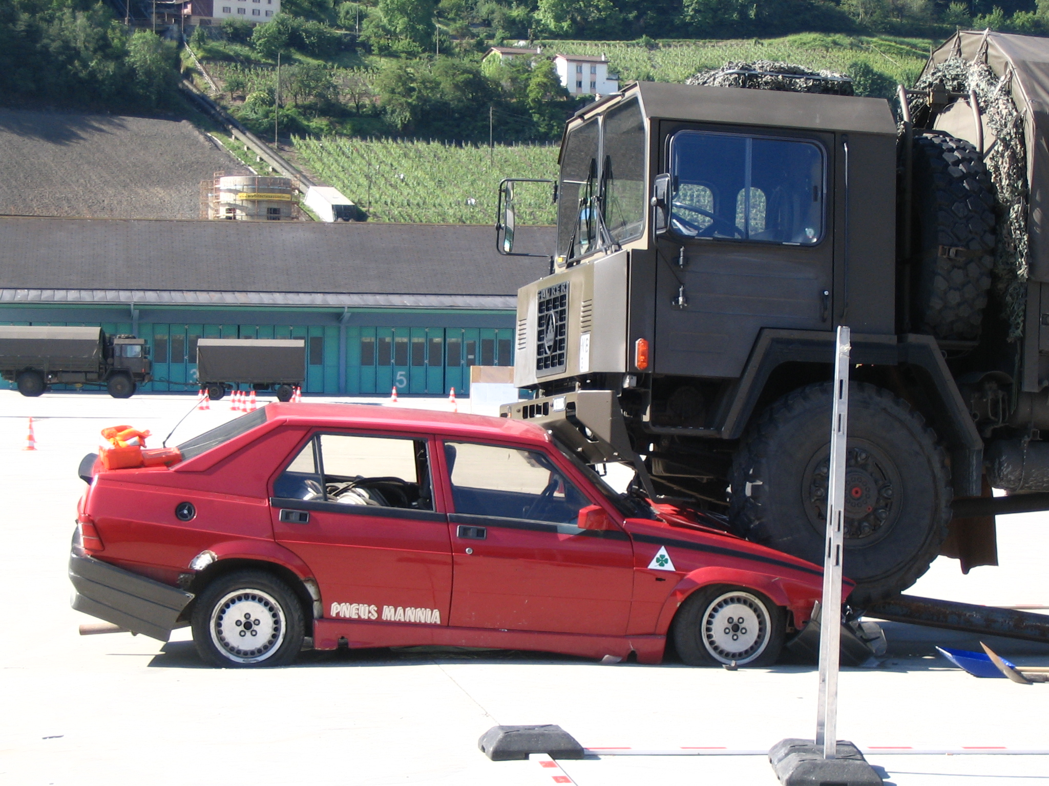 Simulation of an accident between a military truck (Saurer 10DM) and a car - Conducted by Swiss army at Sion / Valais.